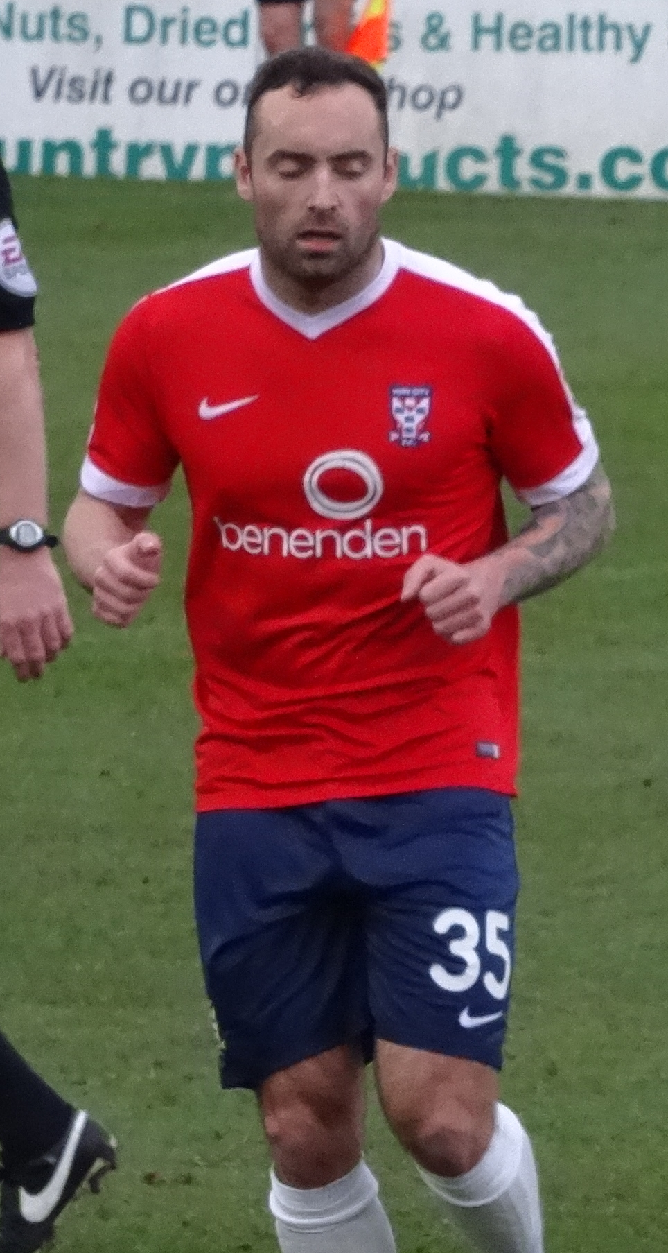 Danny Holmes playing for York City against Brackley Town at Bootham Crescent, York on 25 February 2017